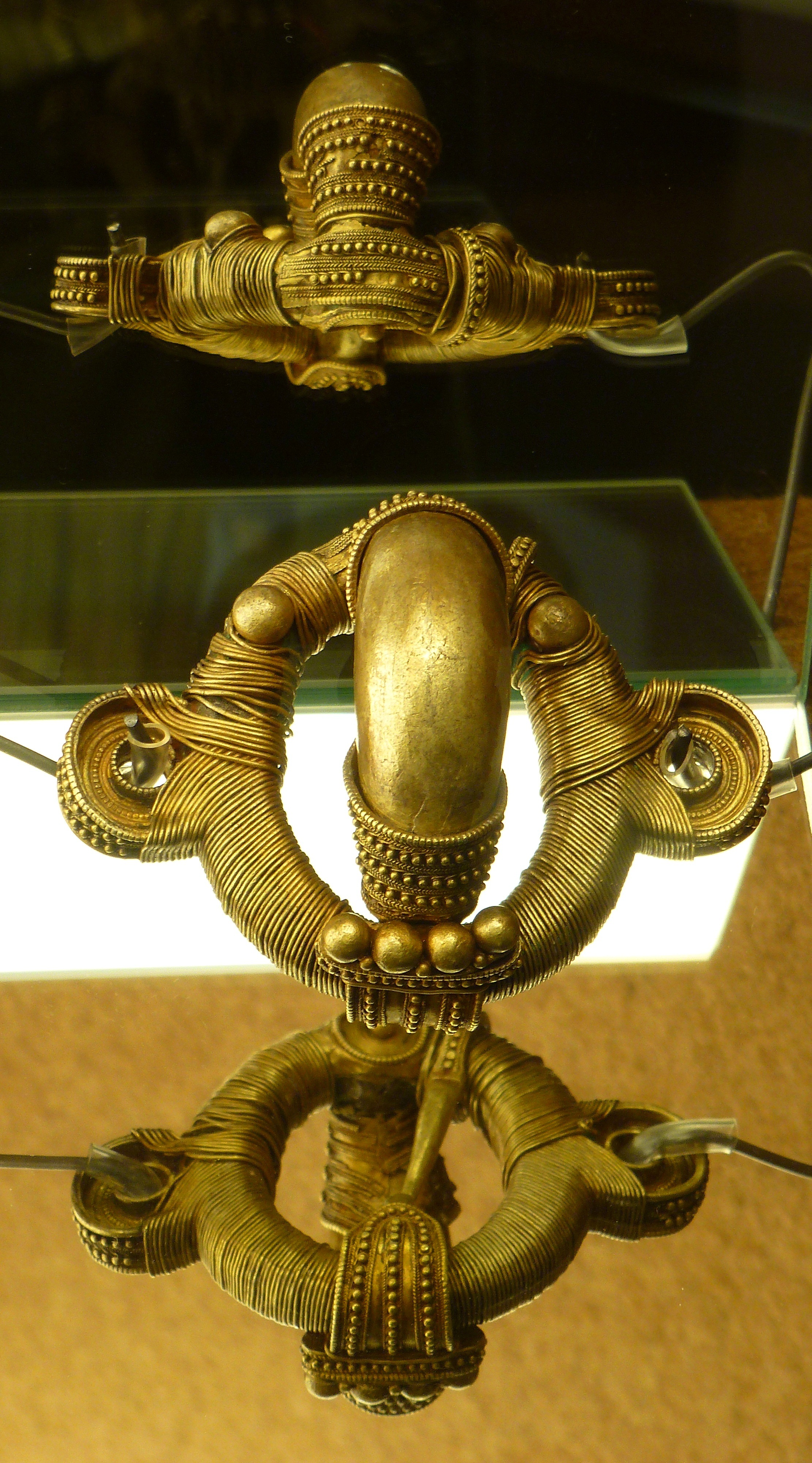 Pre-Roman fibula from the first Treasure of Arrabalde, Museum of Zamora, Spain.